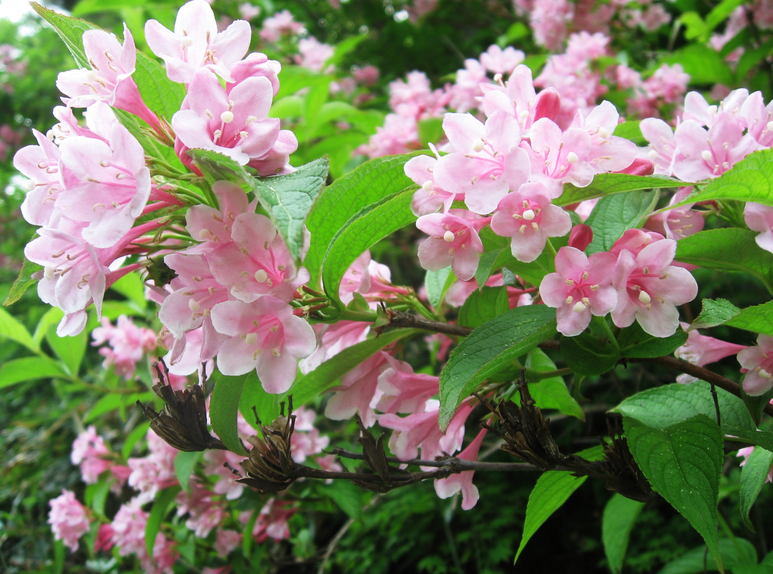 Weigela hortensis, Aizu area, Fukushima pref., Japan